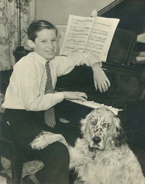 Glenn Gould at 13 with Nicky, his beloved English Setter dog, and his bird Mozart (on top of the sheet music)